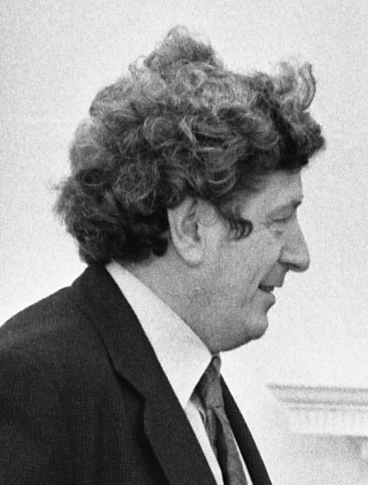 Photograph of Irish Minister of Foreign Affairs Garret FitzGerald in the Oval Office